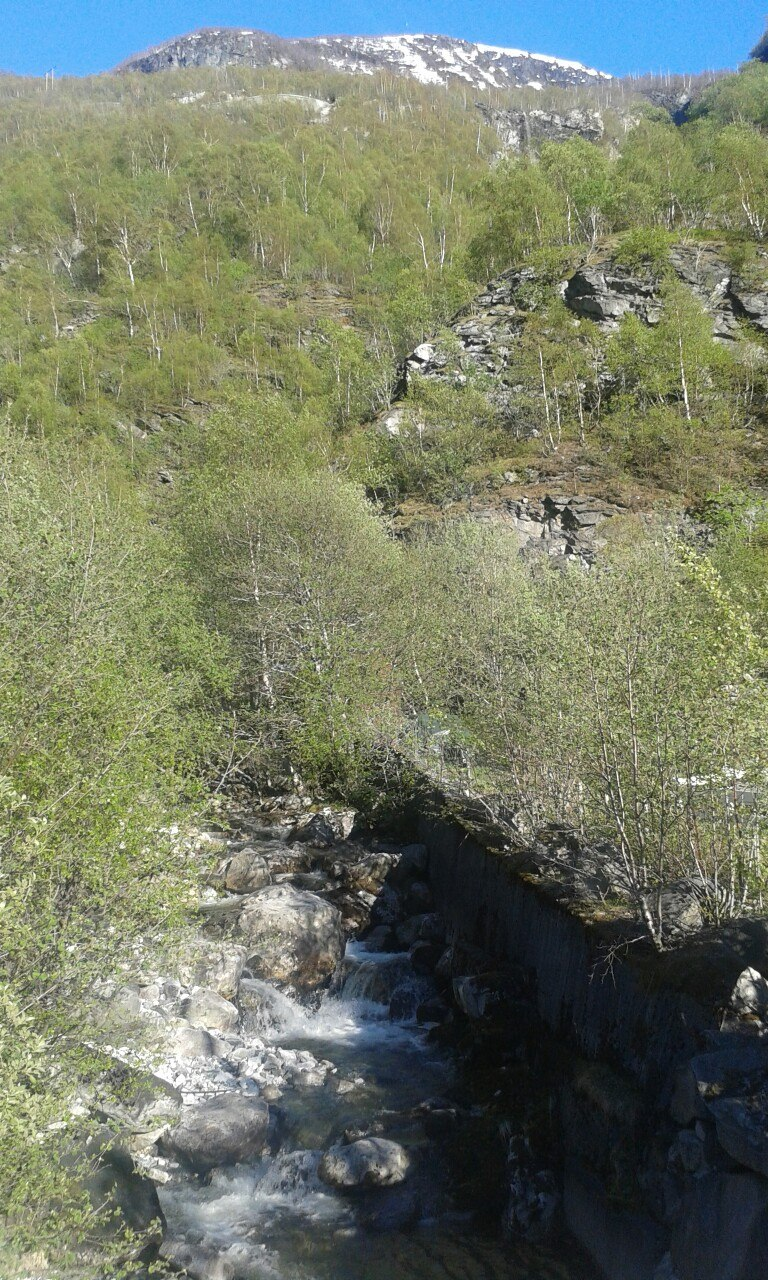 Rapids of a river in Norway, Øvre Årdal 14 May 2015.jpg